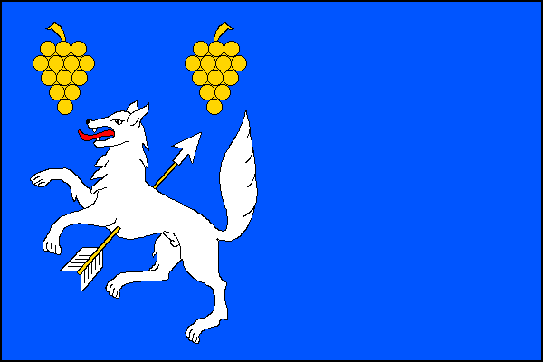 Municipal flag of Vlkoš village, Hodonín District, Czech Republic.